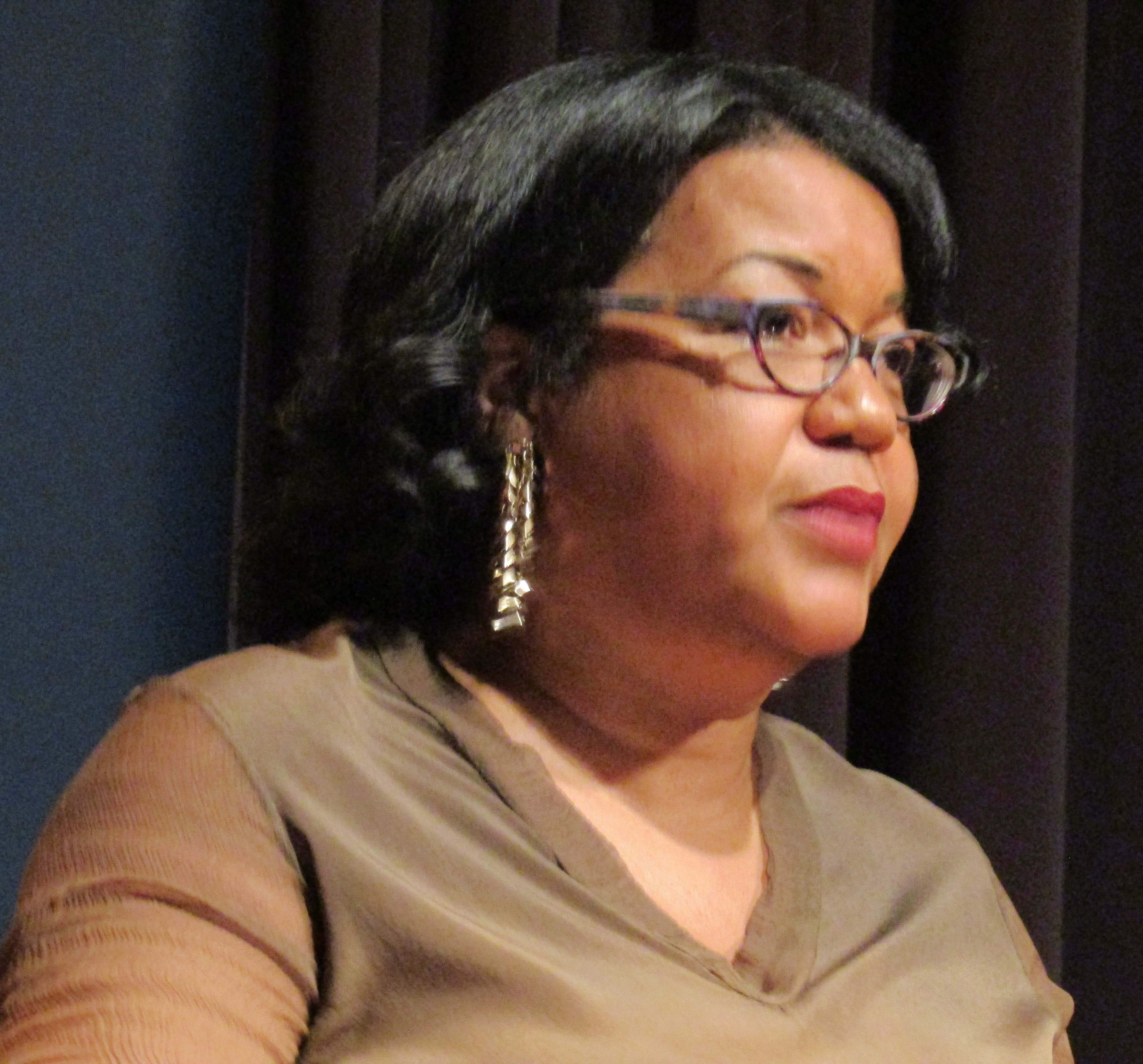 New York Times correspondent Helene Cooper talking about he life of Liberian presiident Ellen Johnson Sirleaf.